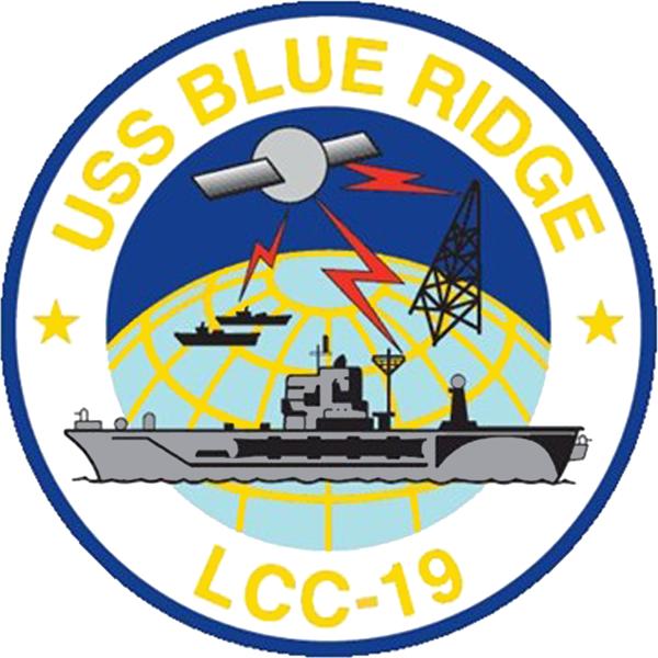 Emblem of the USS Blue Ridge LCC-19